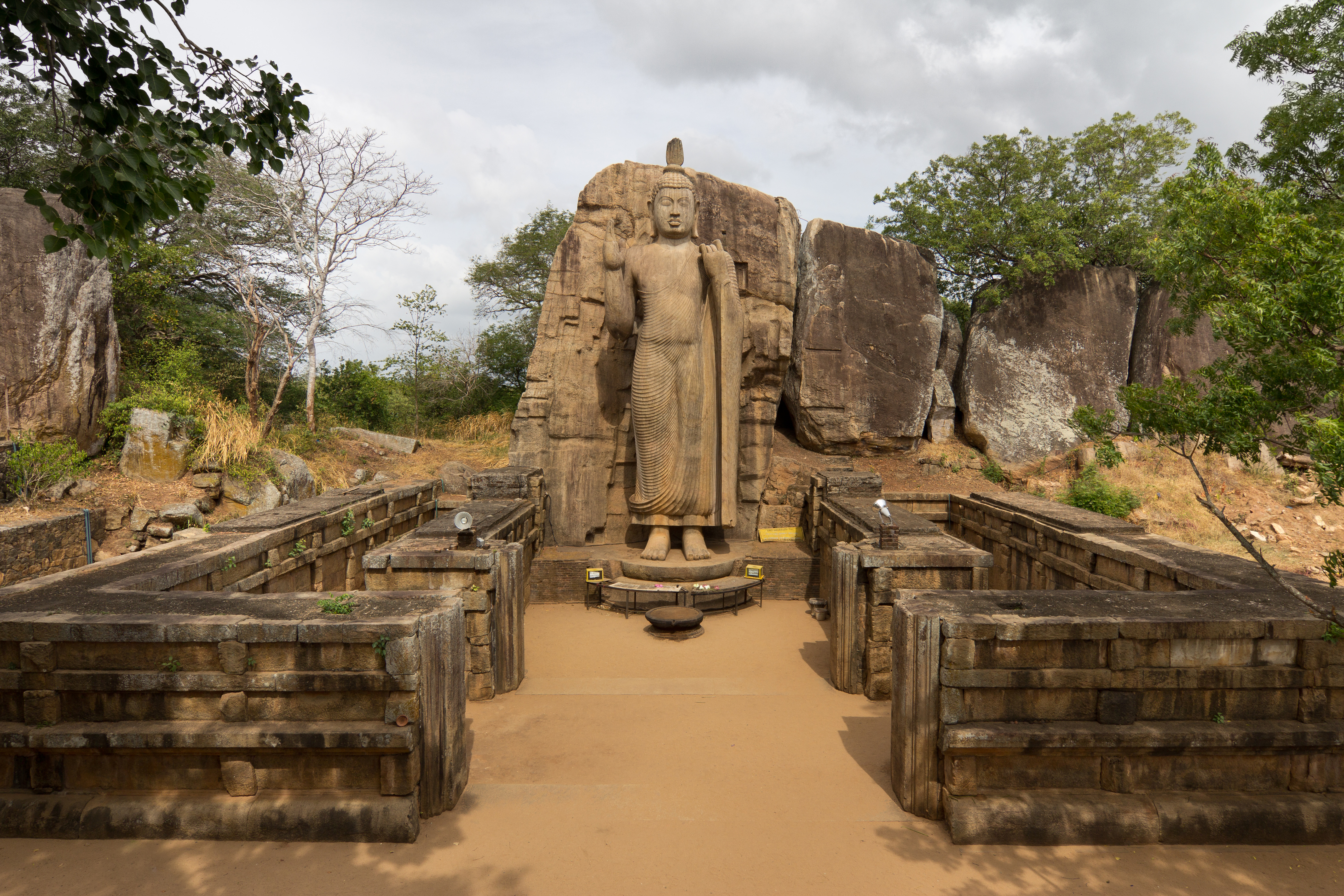 Avukana Buddha statue, Sri Lanka.සිංහල: අවුකන බුදු පිළිමය, ශ්‍රී ලංකාව.